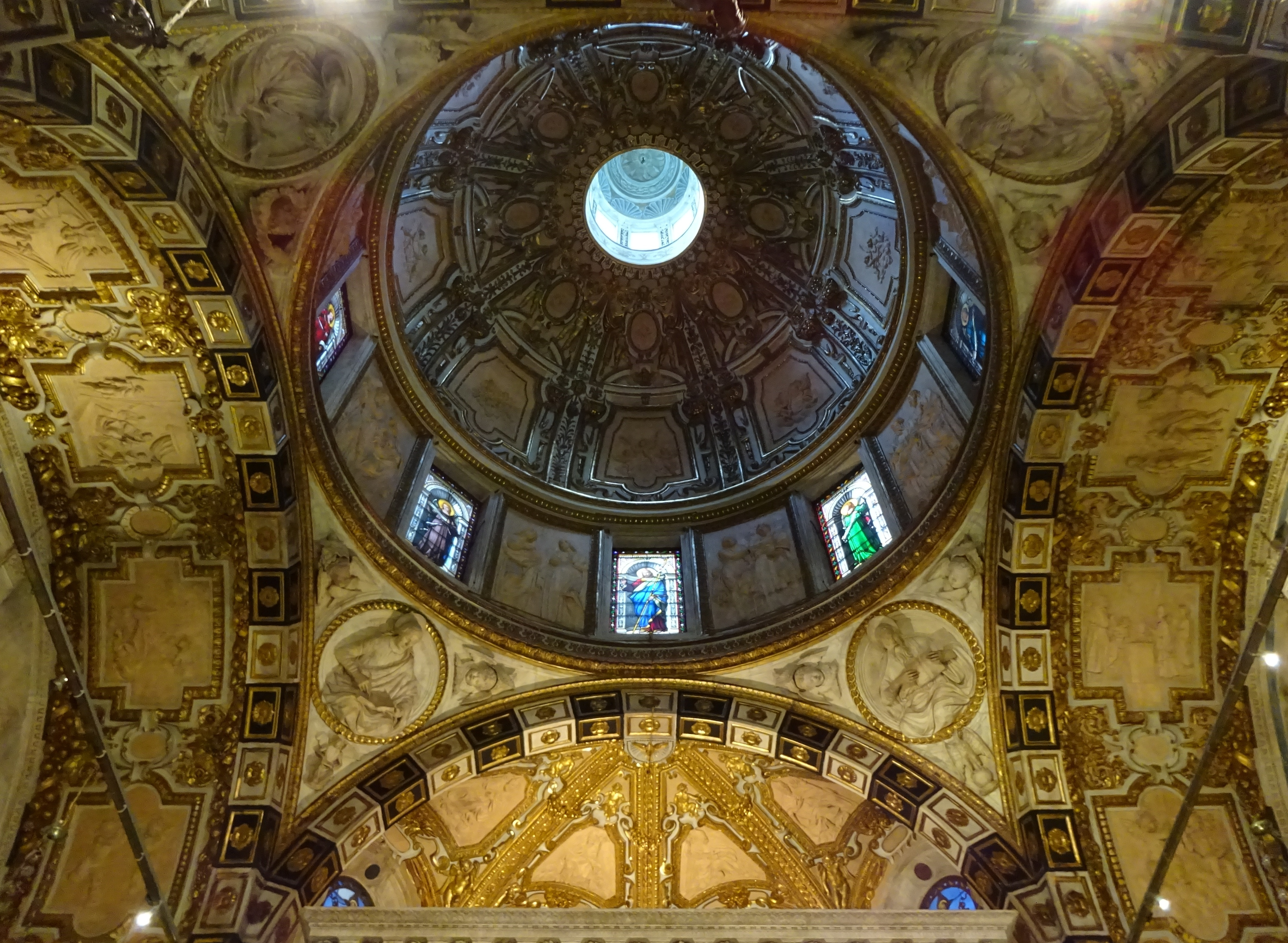 Dome of St. John's Chapel in Genoa Cathedral